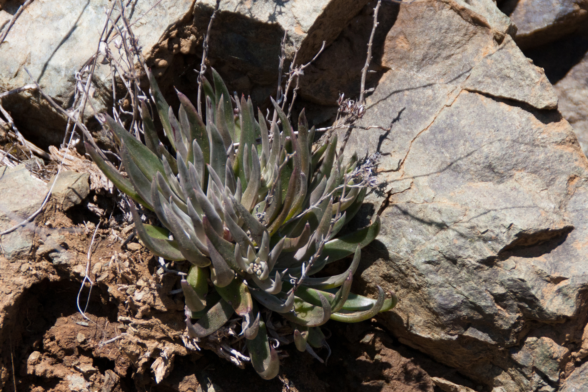 Dudleya setchellii (Santa Clara Dudleya, D. abramsii subsp. setchellii) and serpentinite rocks